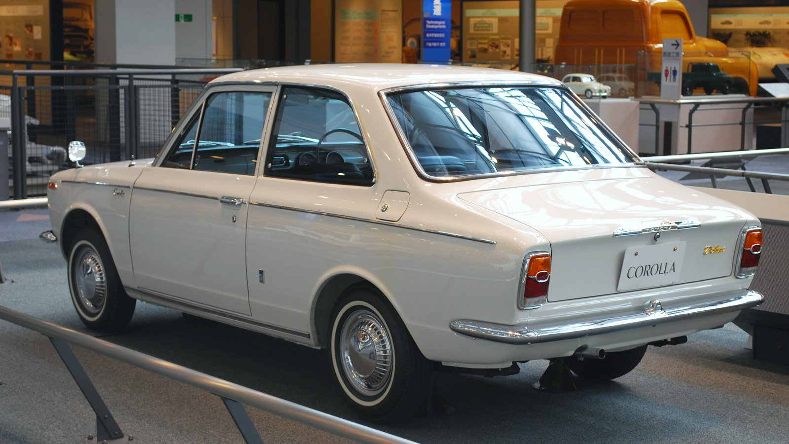 1st generation Toyota Corolla Model KE10